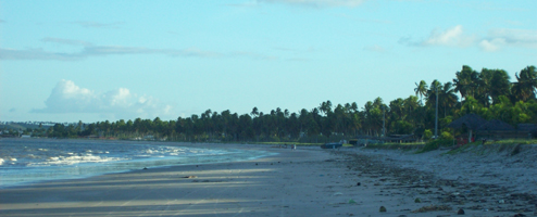 Pitimbue Beach